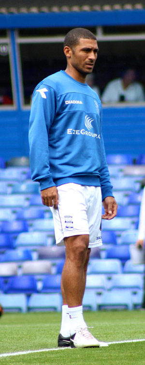 Photo of Hayden Mullins vs Royal Antwerp